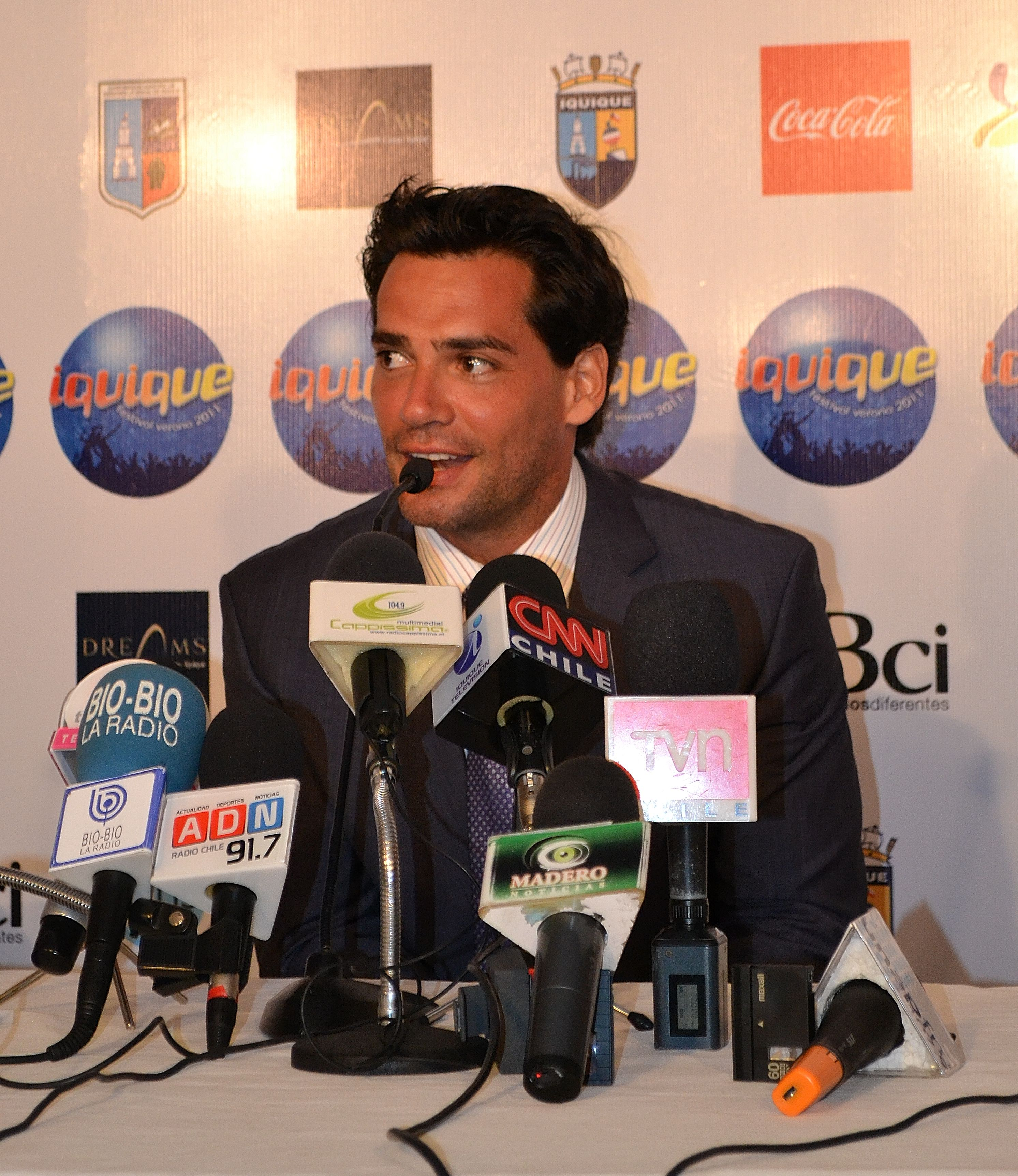 Conferencia de prensa de Cristián De La Fuente.